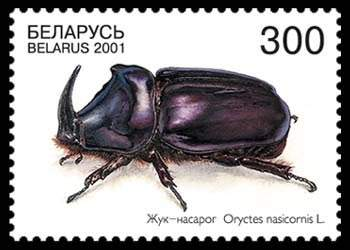 Stamp of Belarus